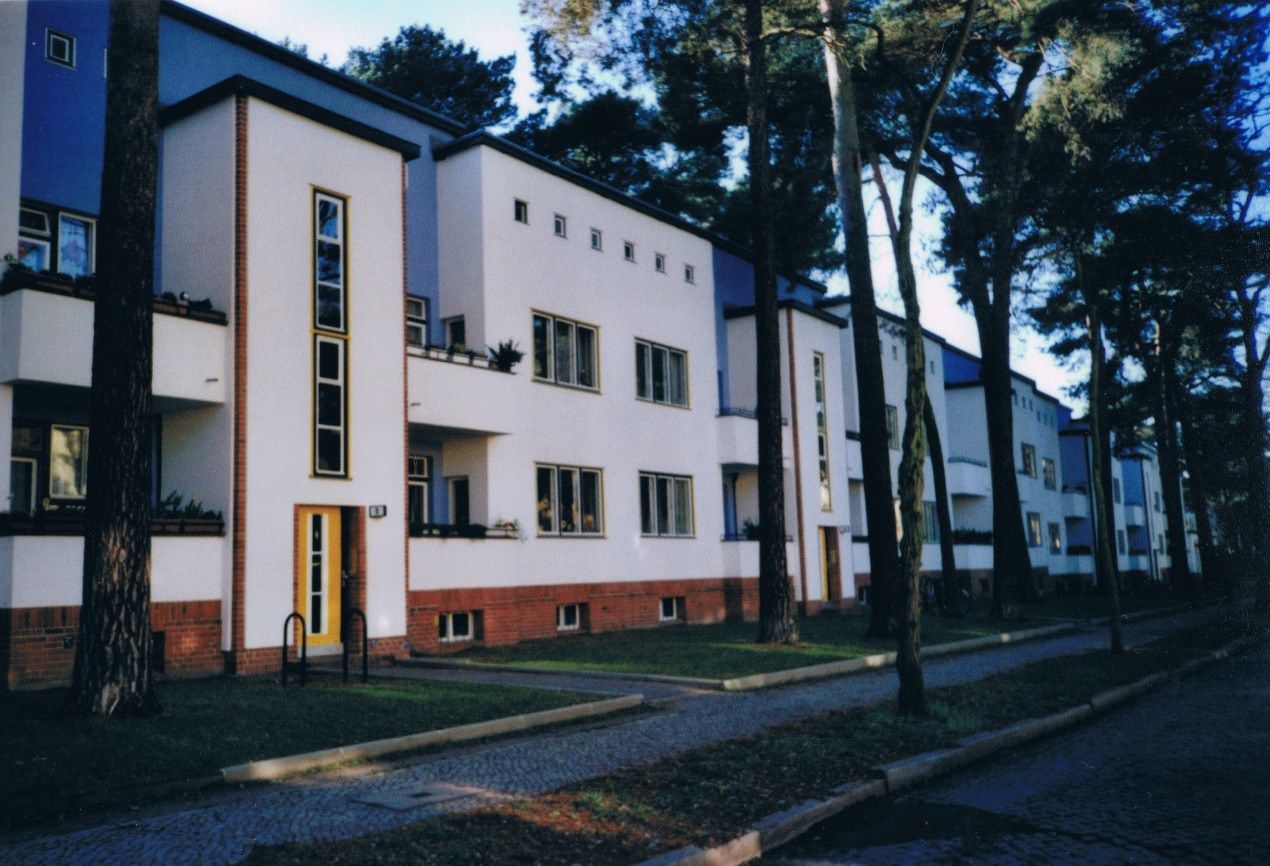 Apartment Houses build by Bruno Taut 1926-31